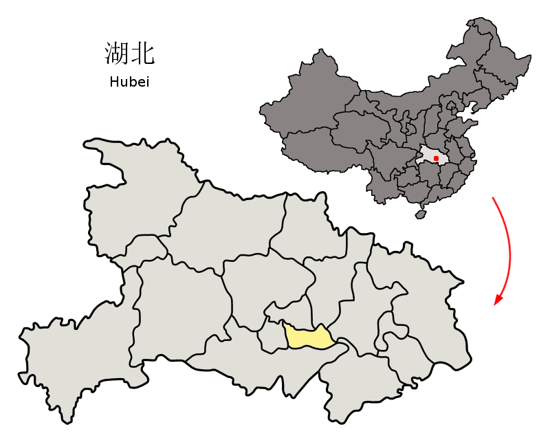 Location of Xiantao City jurisdiction (yellow) within Hubei Province of China Map drawn in december 2007 using various sources, mainly : Hubei Province administrative regions GIS data: 1:1M, County level, 1990 Hubei Counties map from